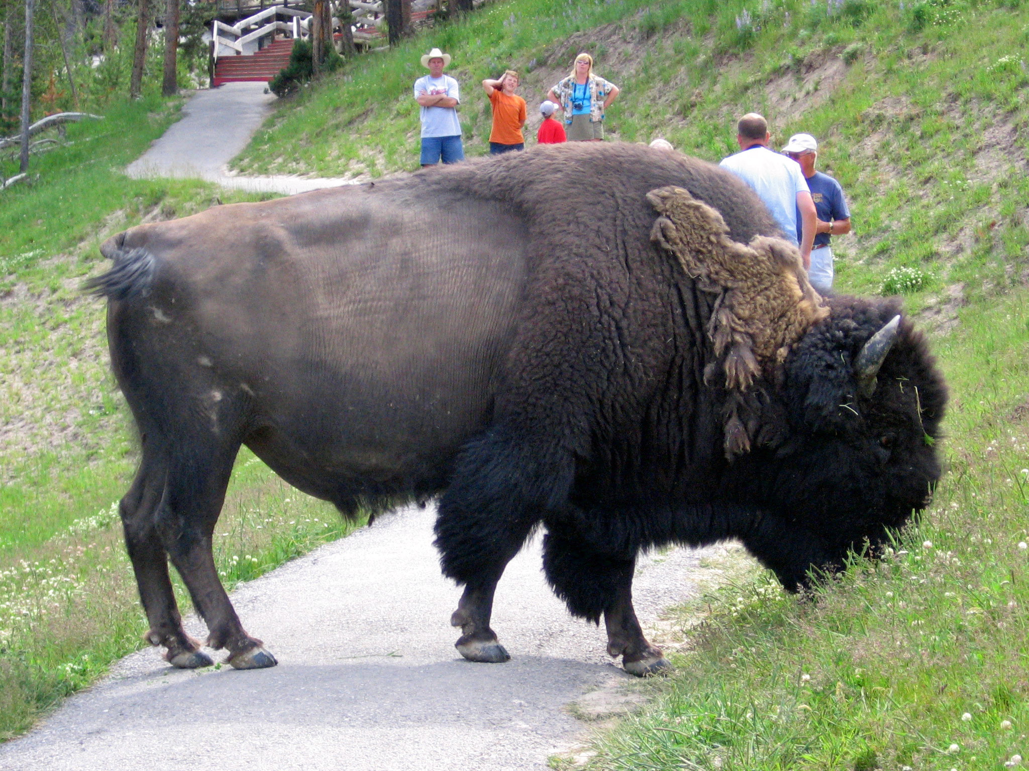 American Bison in Yellowstone National Park